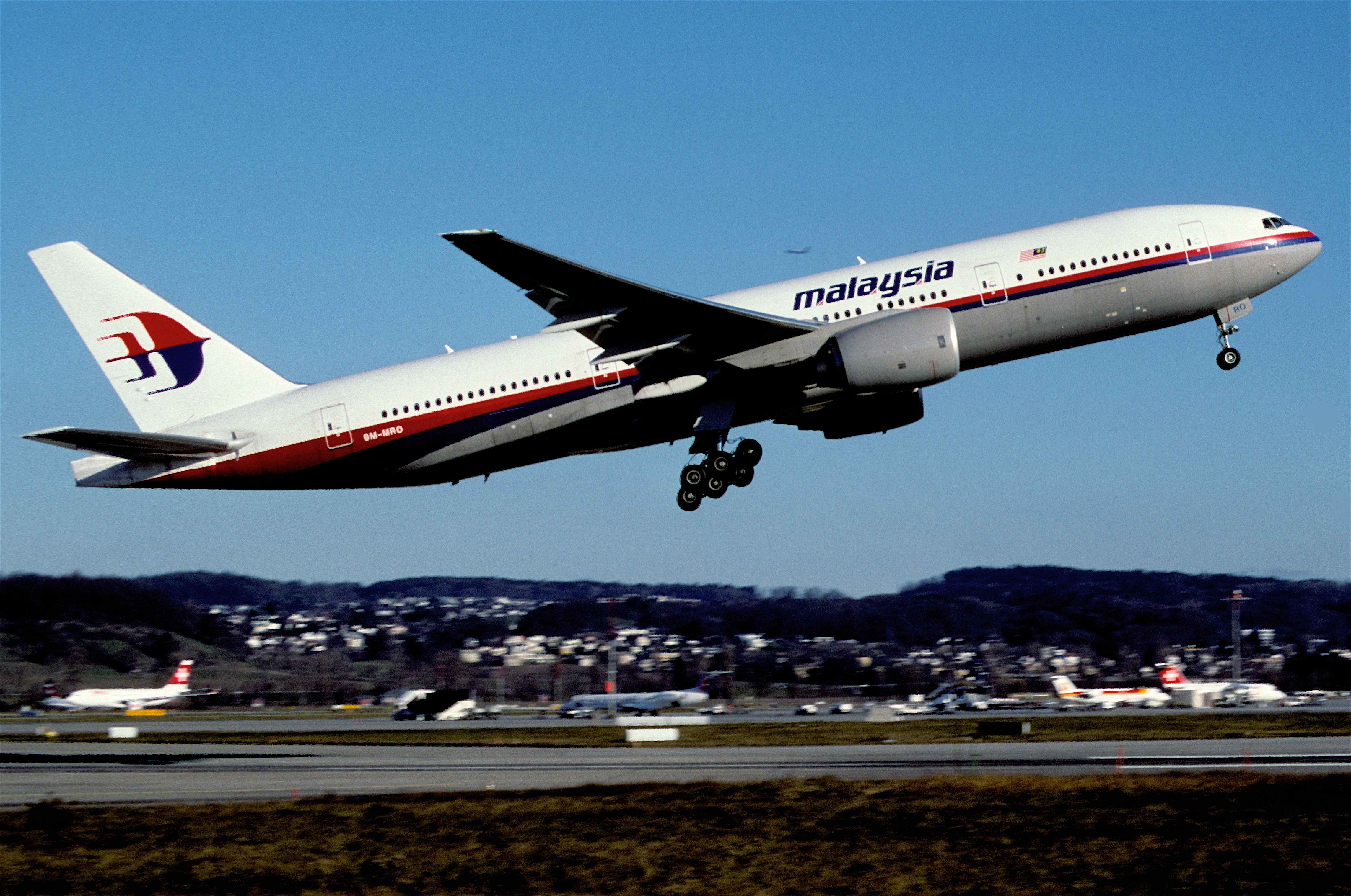 268ap - Malaysia Airlines Boeing 777-2H6ER; 9M-MRO@ZRH;07.12.2003